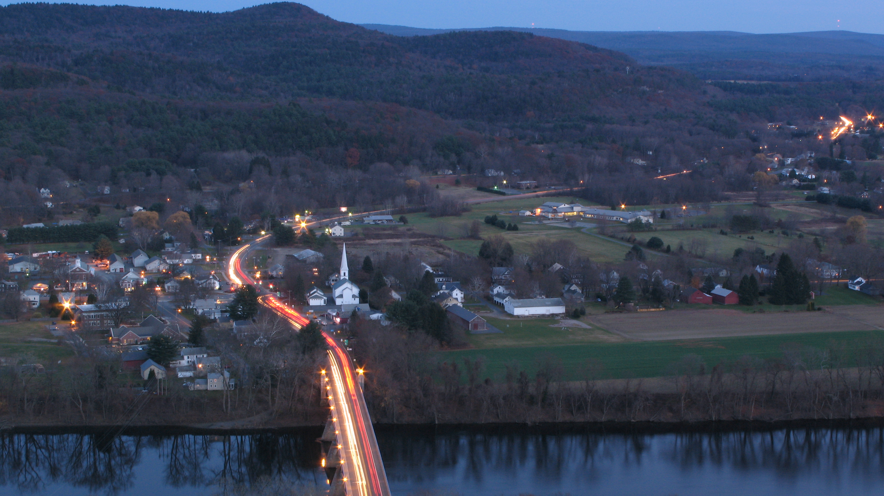 Sunderland, Massachusetts, viewed from Mt. Sugarloaf